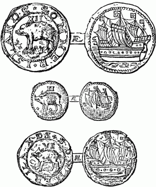 Historic Bermuda Hog Money